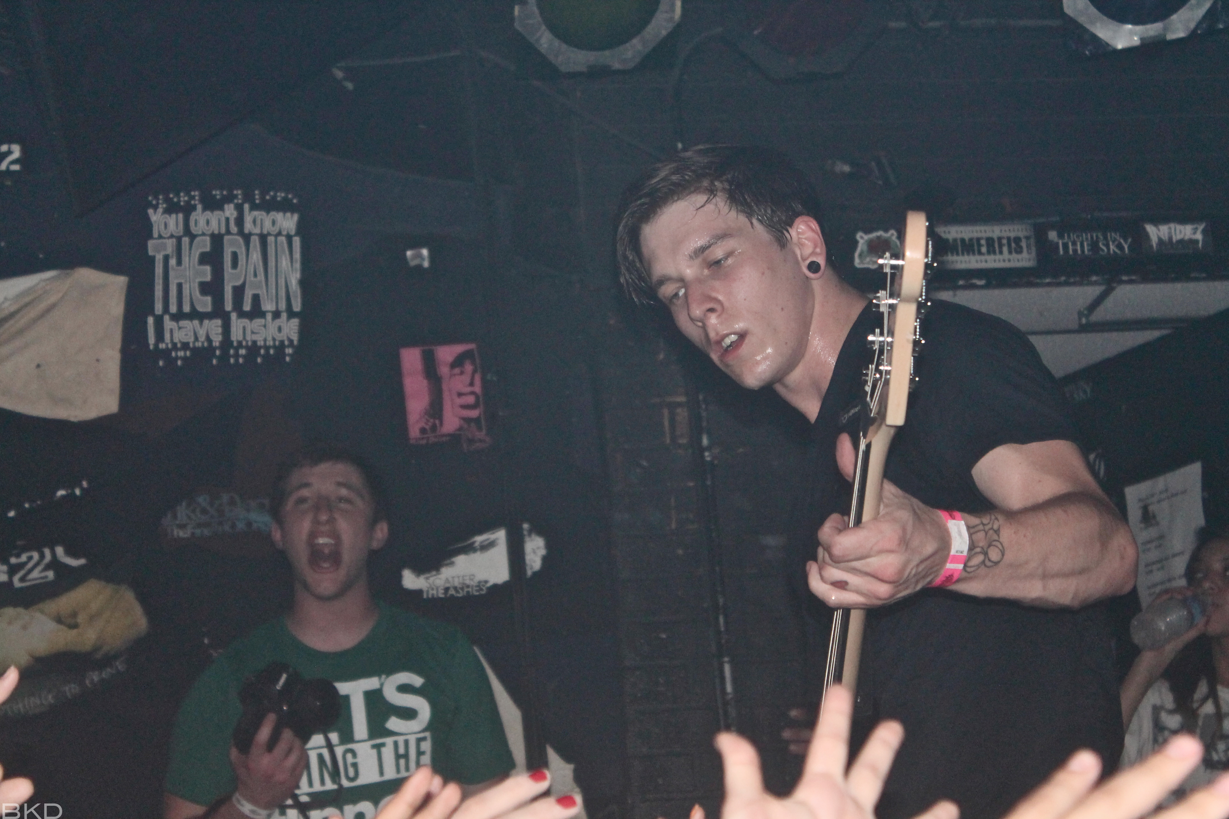 Sleeping With Sirens at Chain Reaction in Anaheim on 3/24/12.